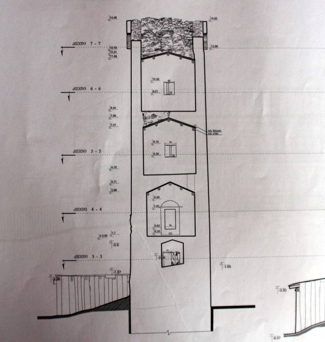 Drawing of Svanetian Tower